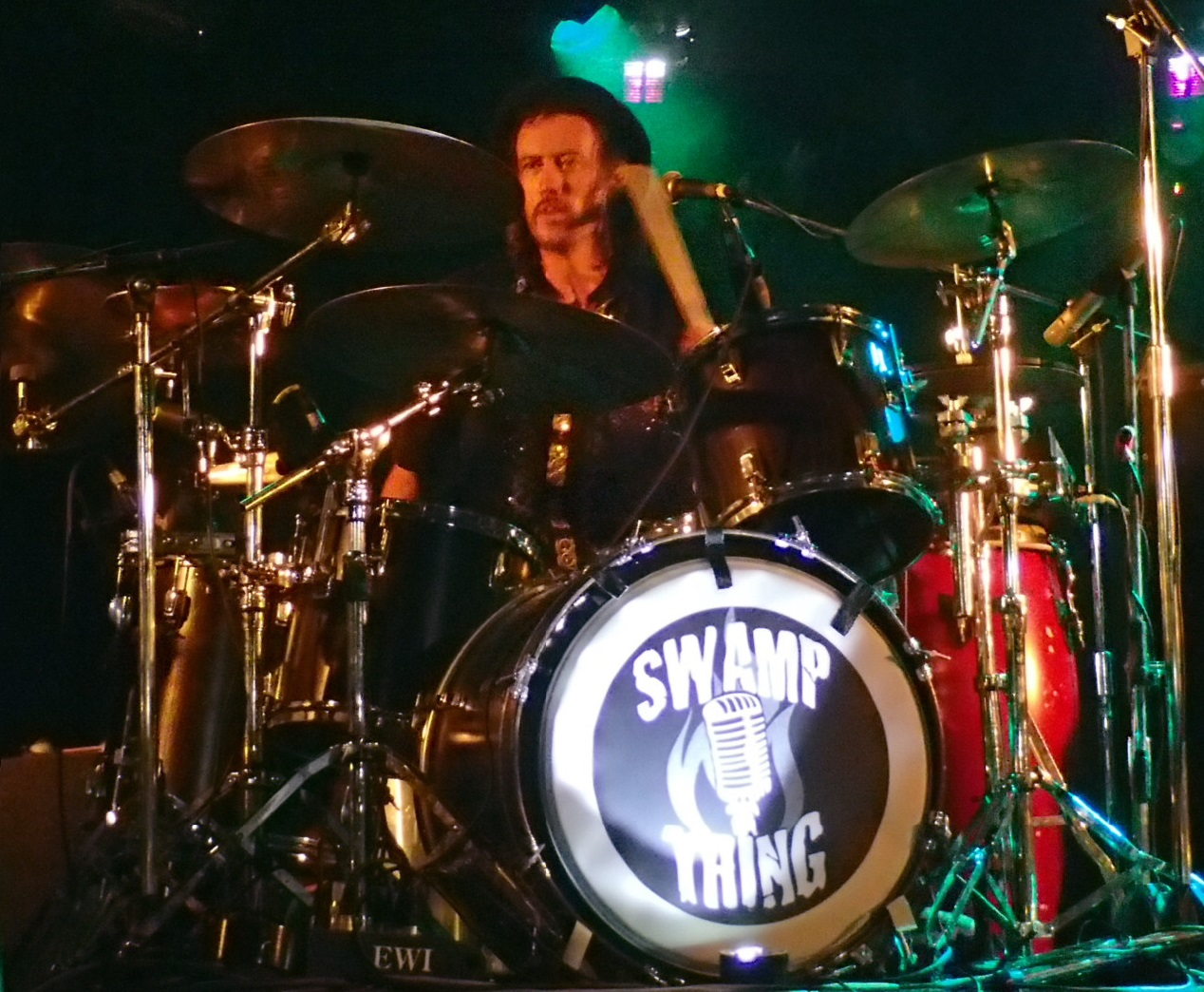 Michael Barker performing at a Swamp Thing concert at Nelson, New Zealand, on the New Year's Eve event of 2013